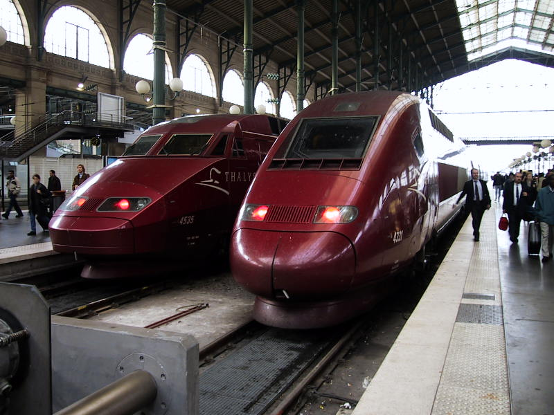 Thalys PBA (left) and Thalys PBKA (right) high-speed trains side-by-side in Paris Gare du nord station.